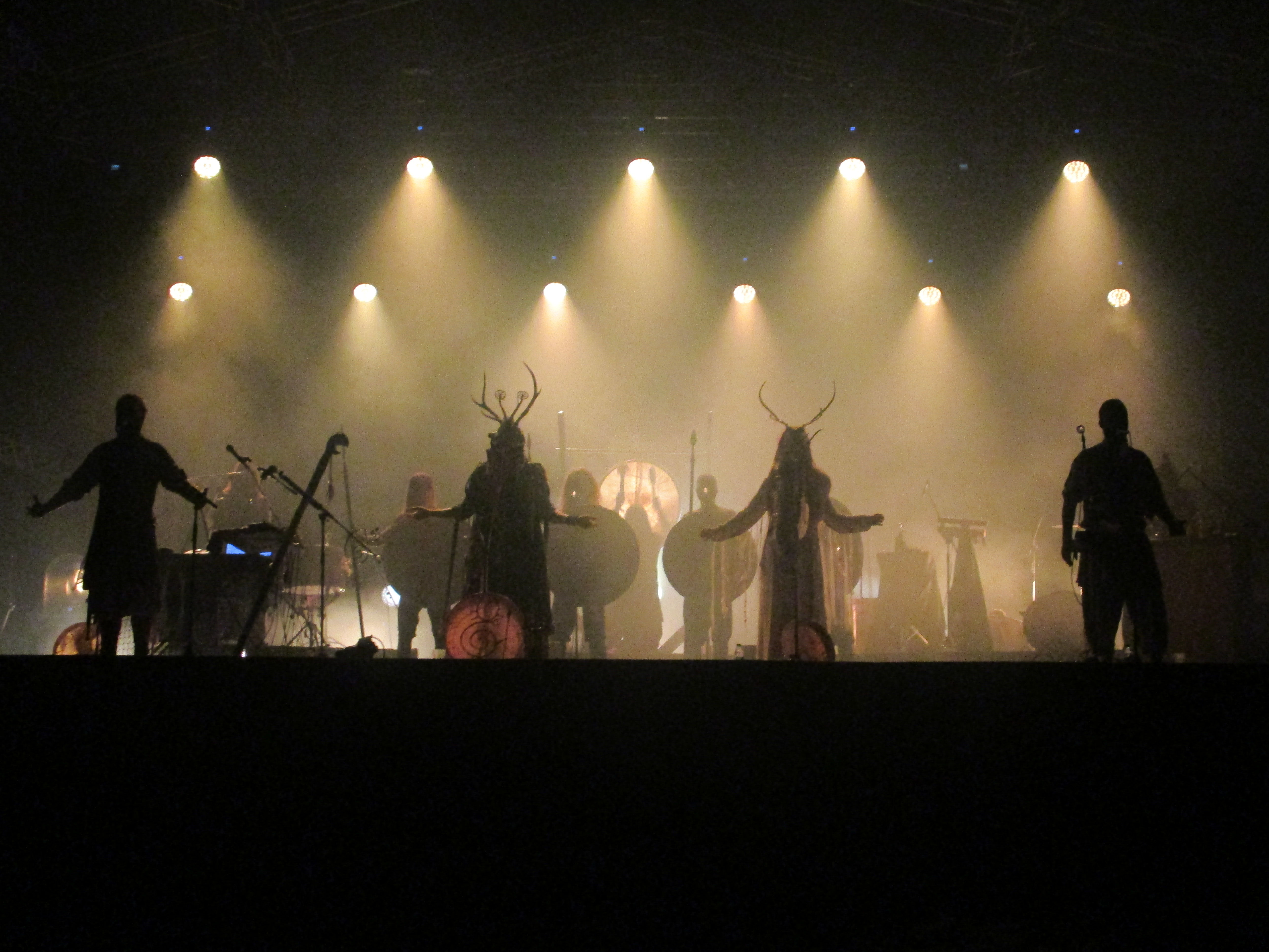 Experimental folk band Heilung performing on the Mėnuo Juodaragis Great Heavenly Stage, August 26, 2018.